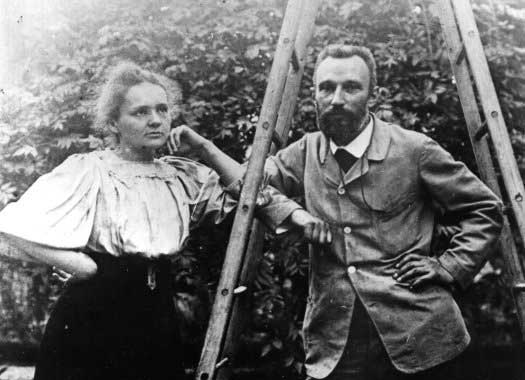 Marie Curie (Polish born French Physicist) 1867-1934, pictured with her husband Pierre Curie in the garden of the International Bureau of Weights and Measures at Sevres, Paris.